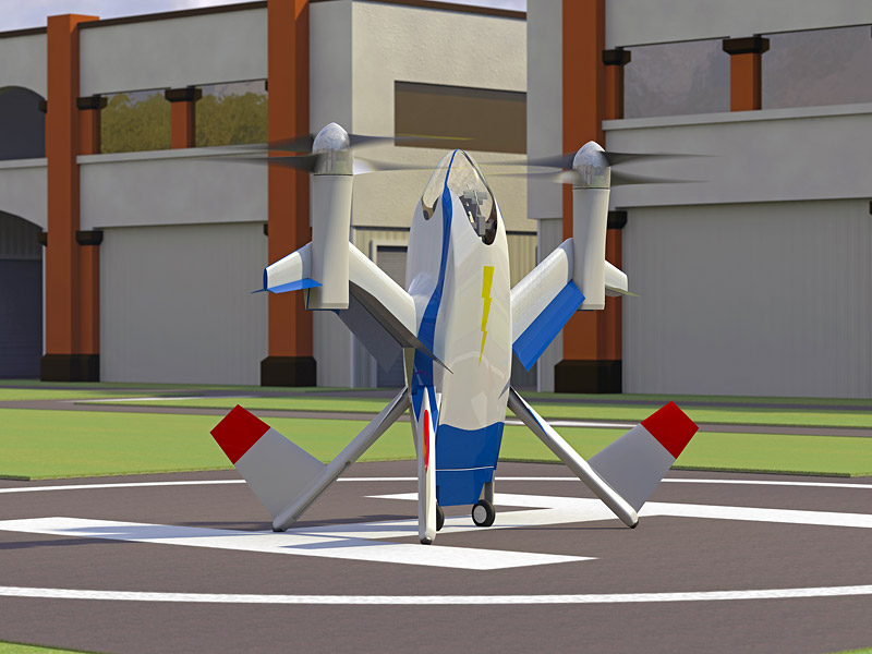 NASA Puffin concept electrical VTOL aircraft